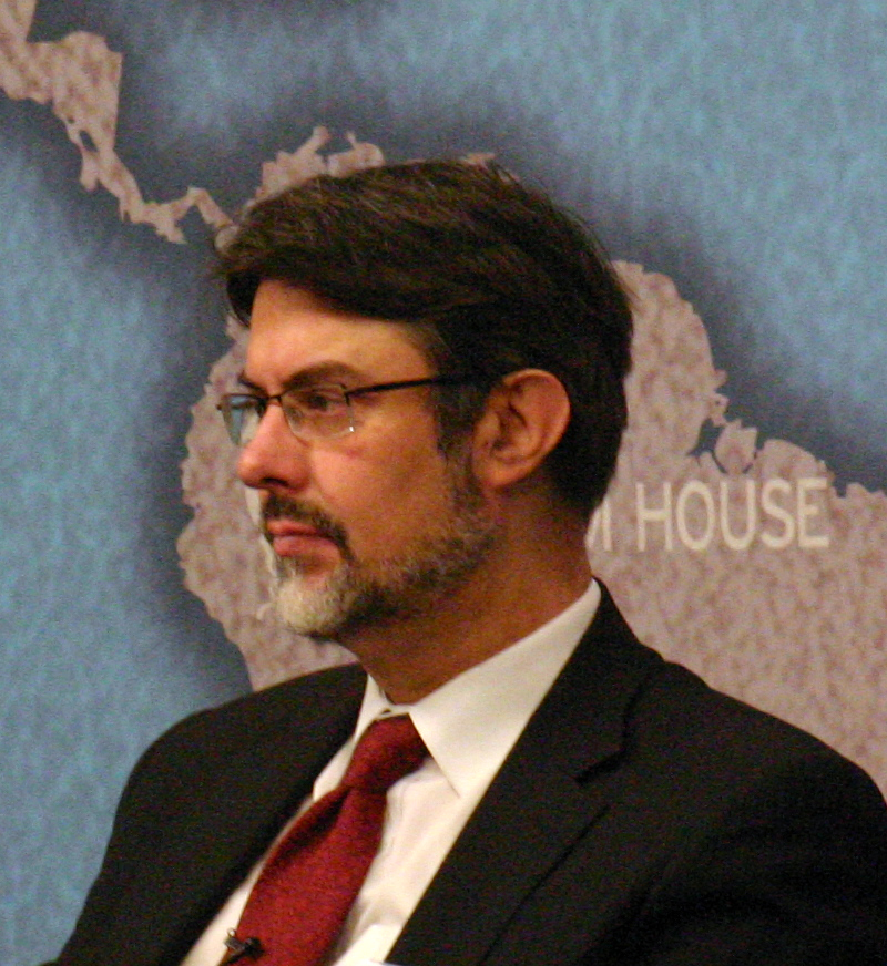 Anatol Lieven at the Chatham House event A New Era in Maritime Security?: Risks, rules and responsibilities, 22-23 October 2012